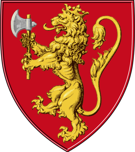 Coat of arms of Norway. Version used during the first years following the 1905 dissolution of the union with Sweden.